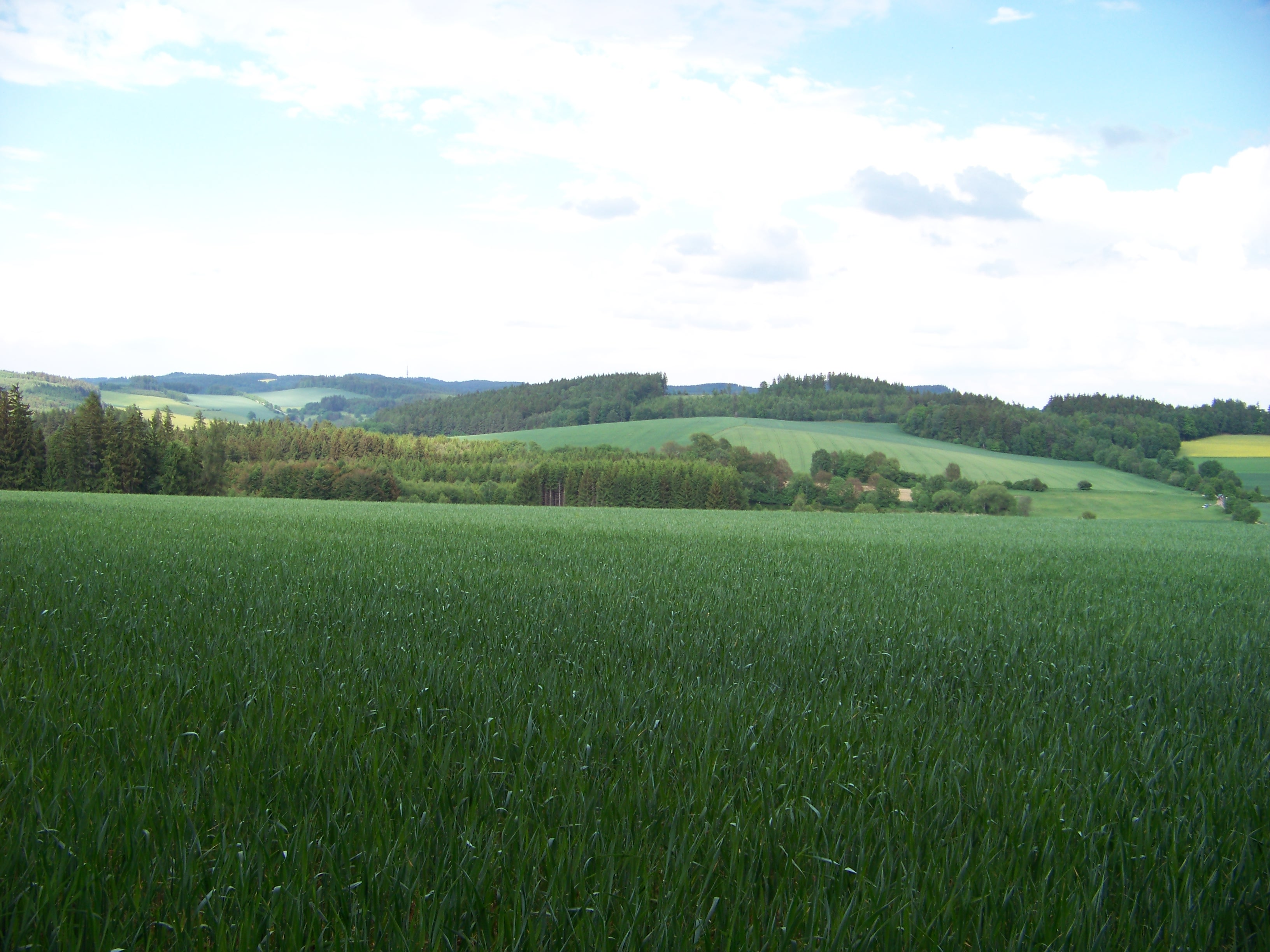 Ješetice-Řikov, Benešov District, Central Bohemian Region, the Czech Republic. A landscape, Deboreč hill.